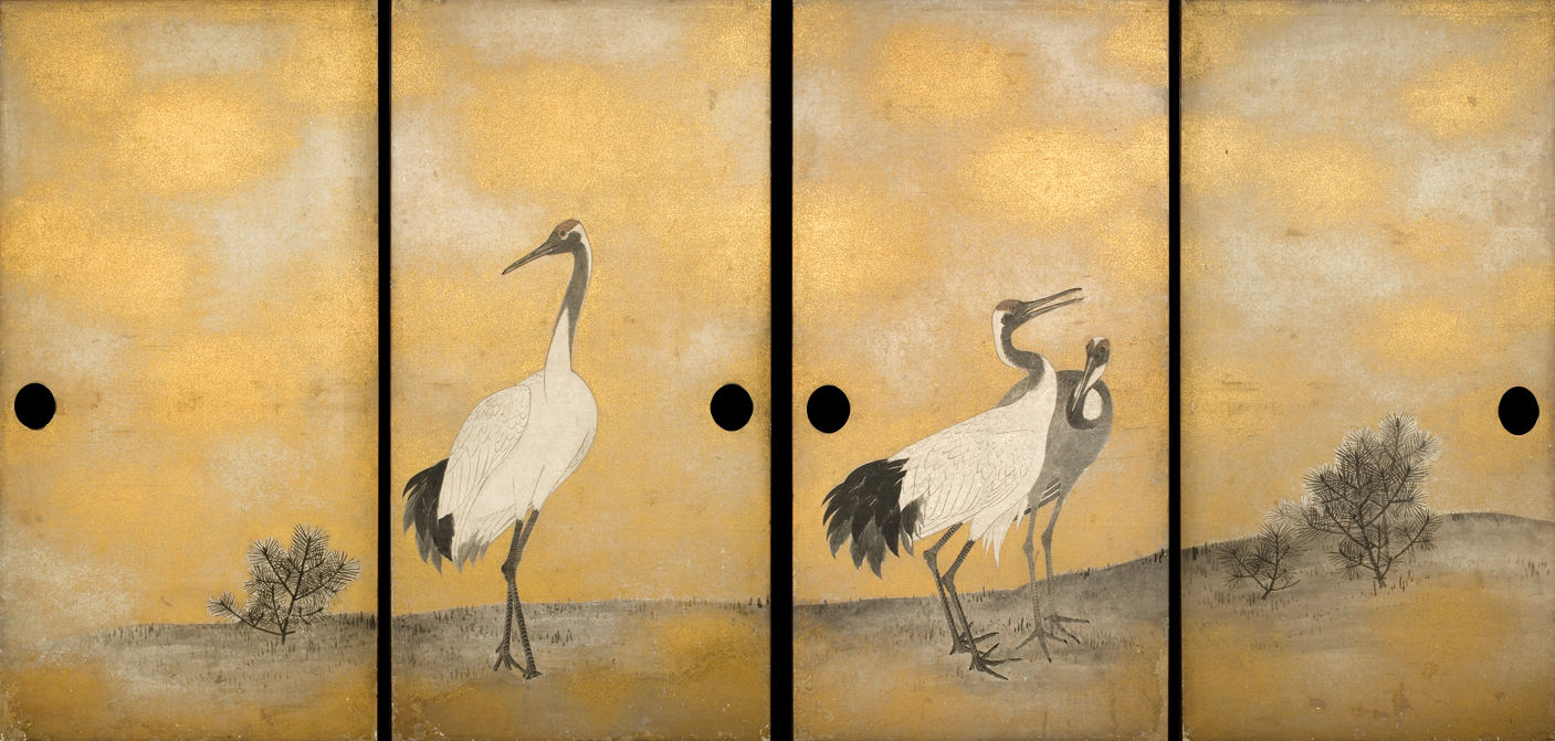 Sporting Cranes by Maruyama Okyo, Kotohiragu, Kotohira, Kagawa, Japan